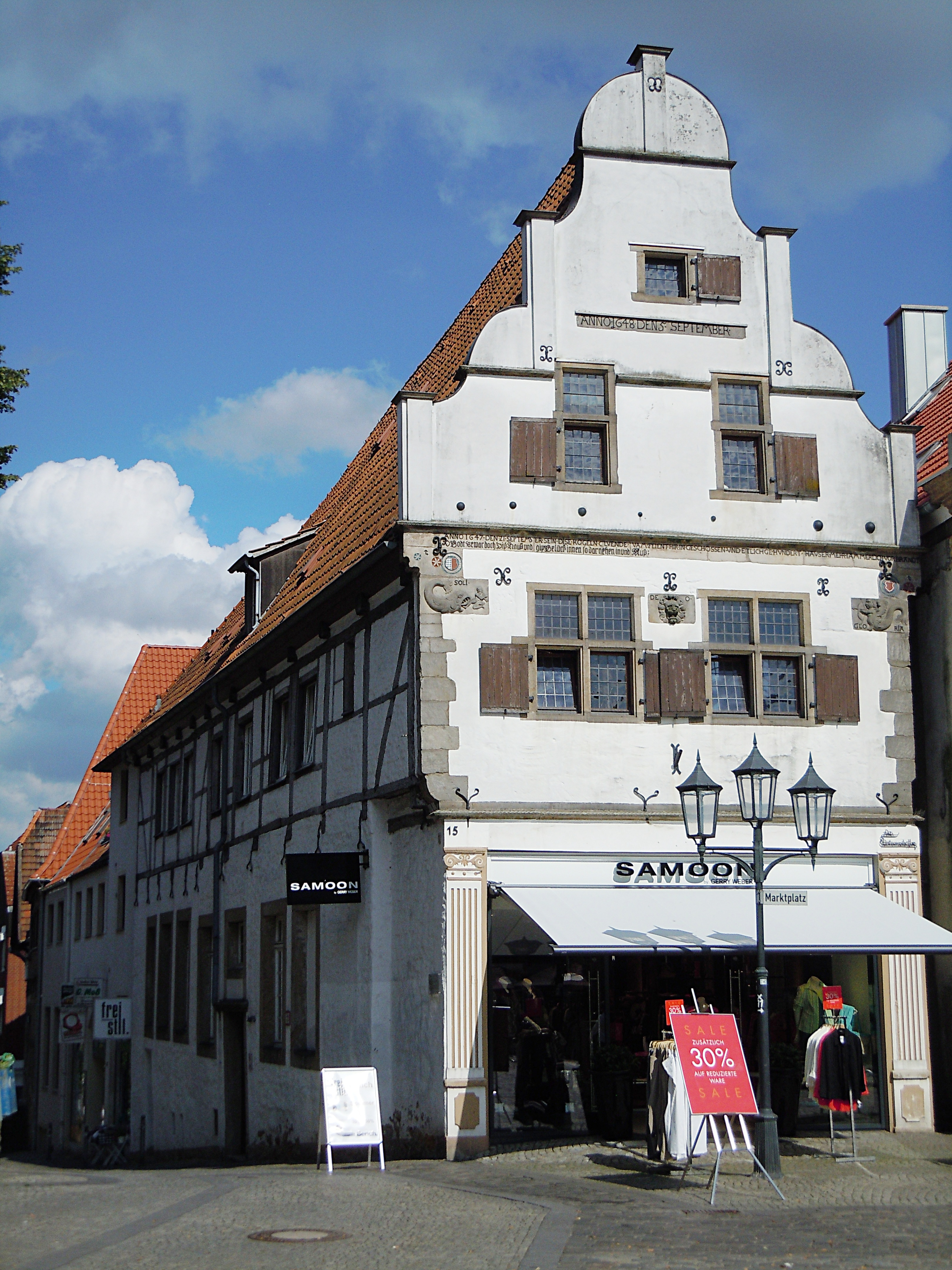 Beilmann House in Rheine, Germany